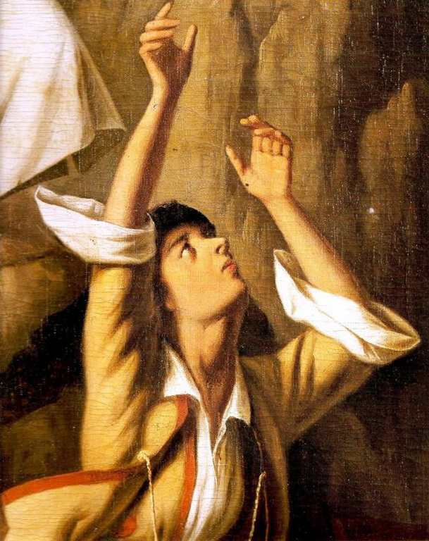 Detail from the paint work Dance of Zalongo